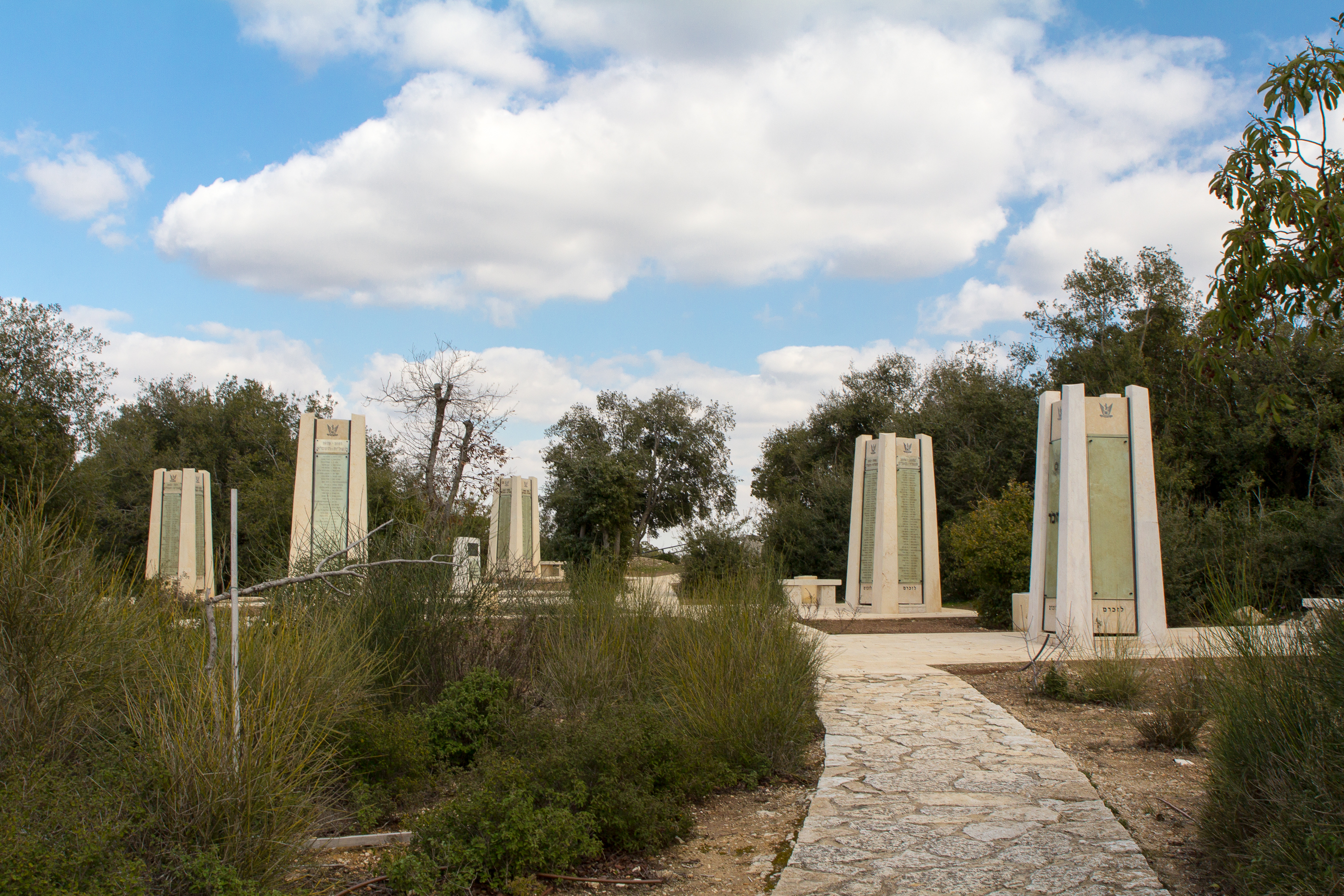 Israeli Air Force memorial site on Pilots Mountain